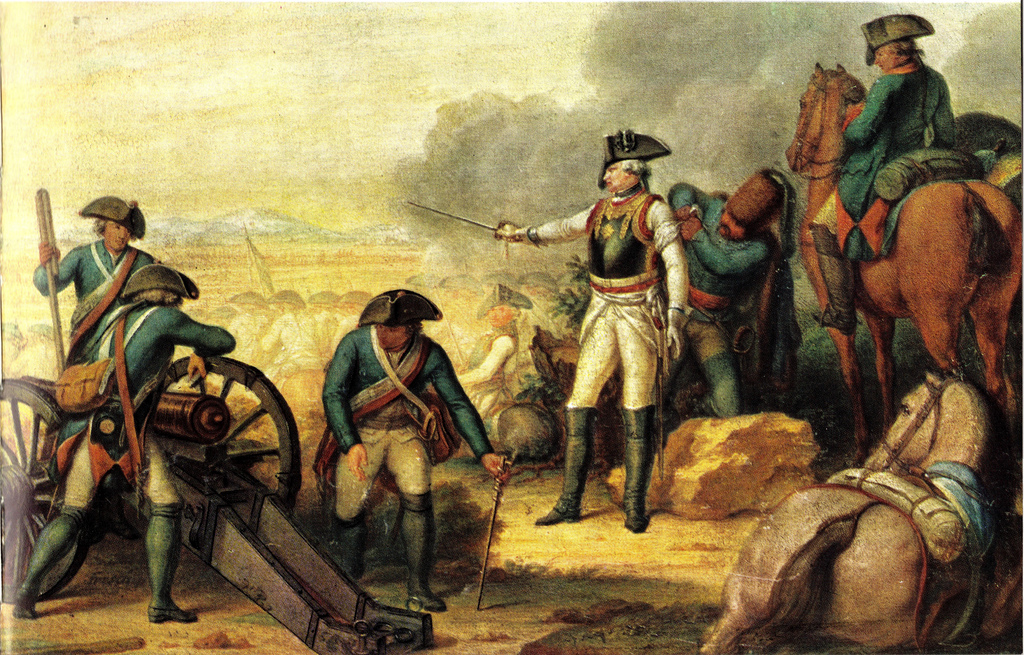 Seydlitz at the Battle of Rossbach